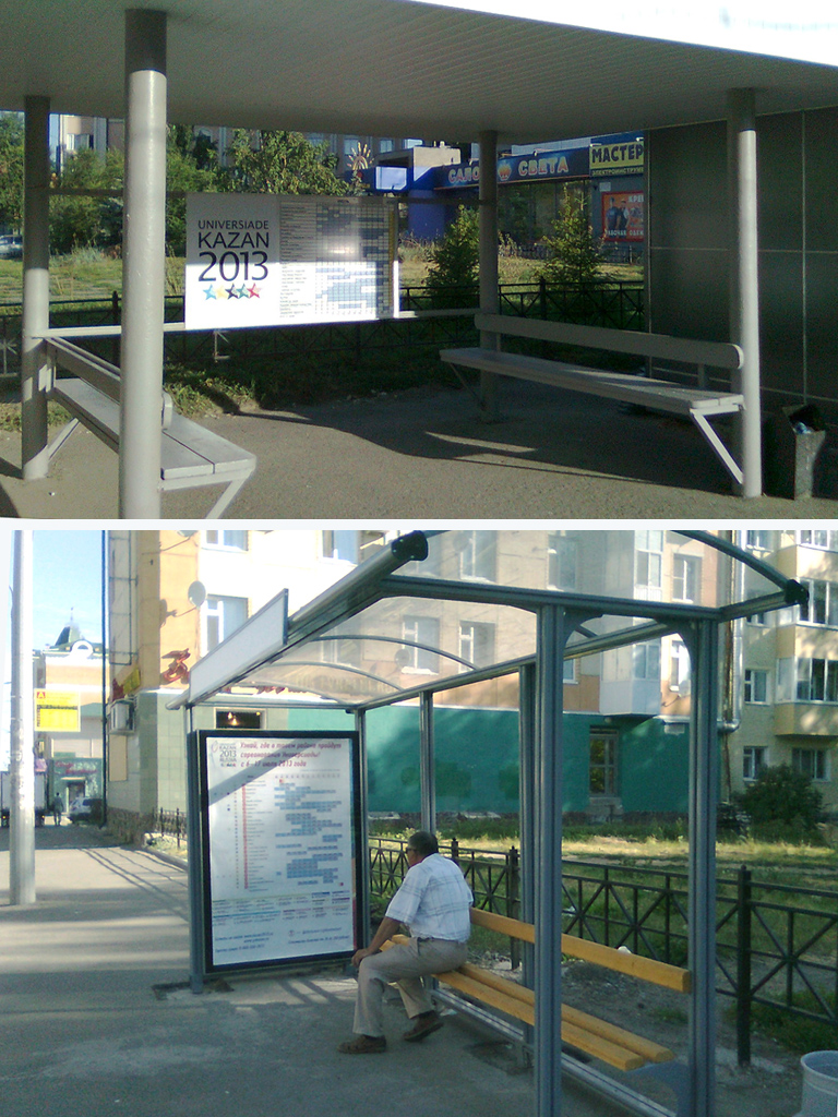 stops with games schedule of 2013 Summer Universiade in Kazan